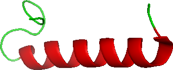 Picture of calcitonin